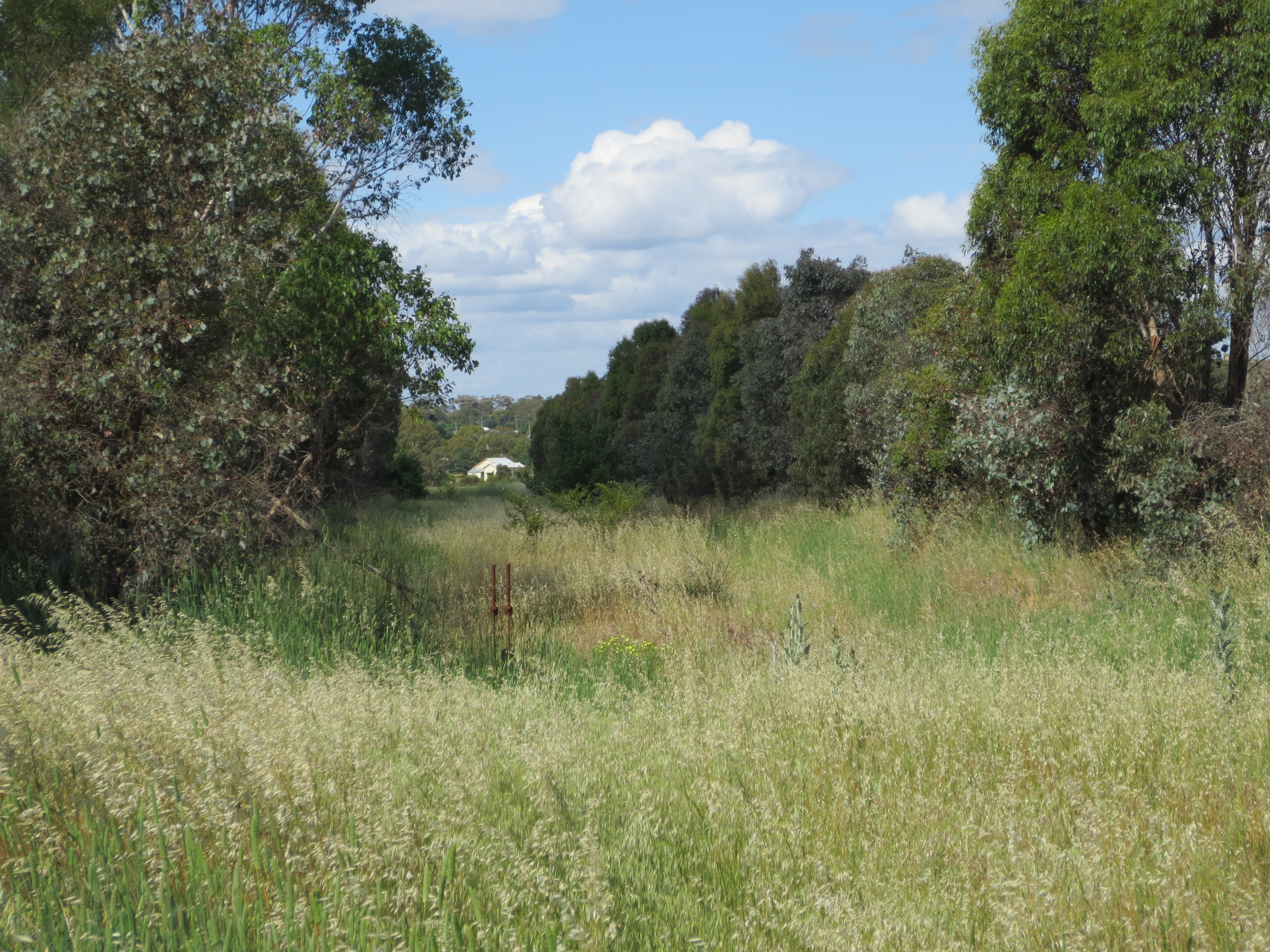 regenerated habit for the superb parrot along the abandoned Boorowa railway line. Adjacent to the Lachlan Valley Way just outside Boorowa. Photographed November 2015 Supported by Boorowa Council Landcare Australia Greening Australia and others